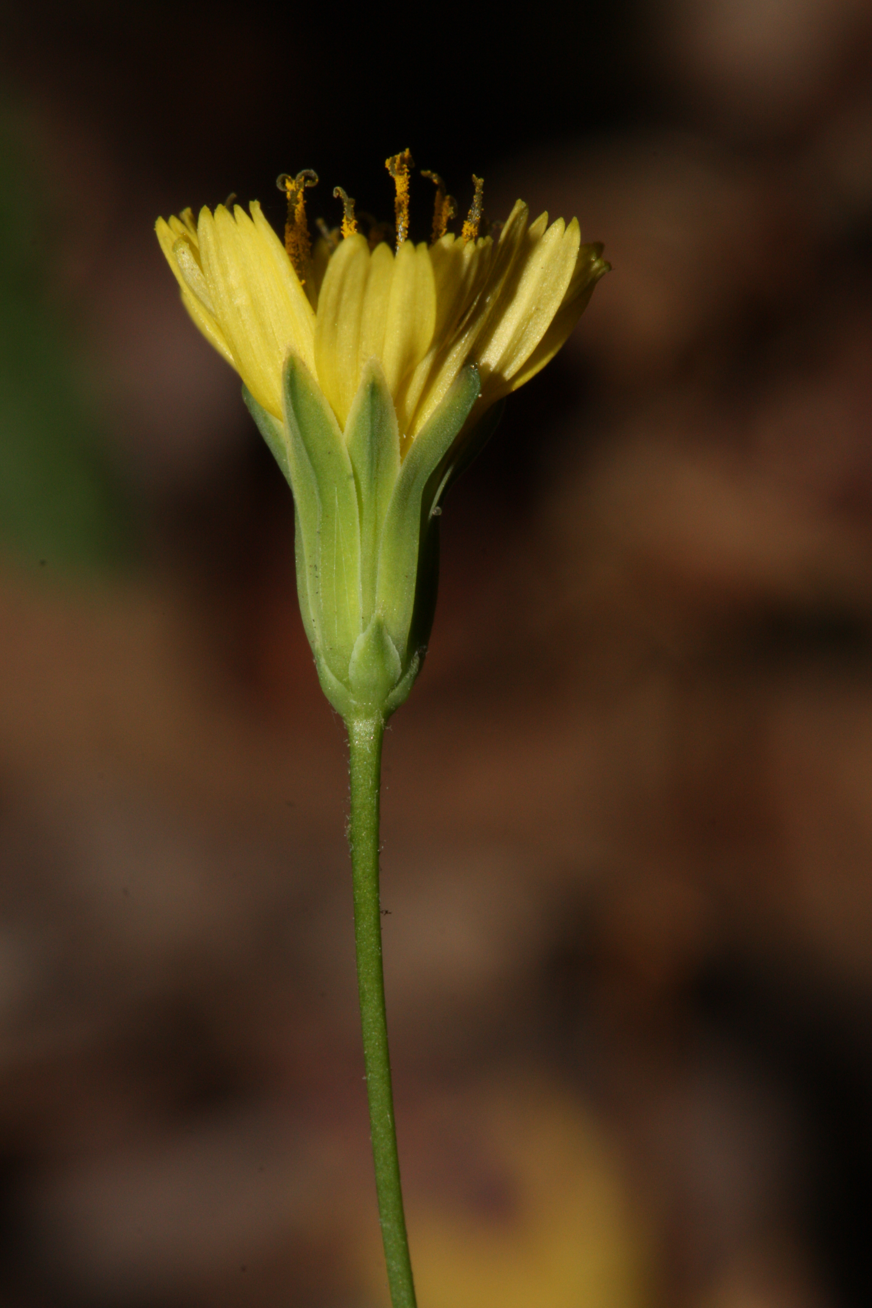 Common Nipplewort